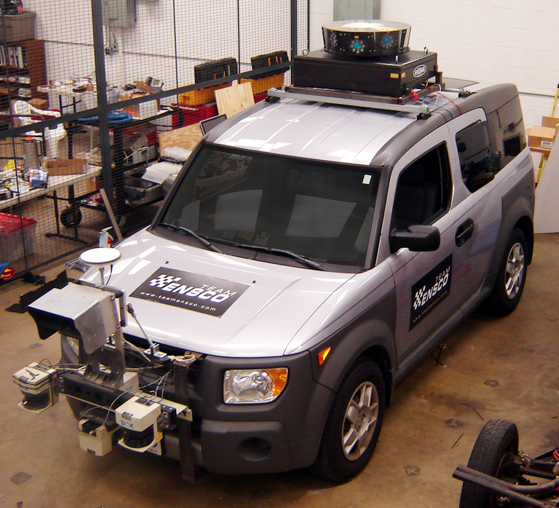 A vehicle being developed for the 2007 DARPA Urban Challenge. I took this picture and release it to the public domain